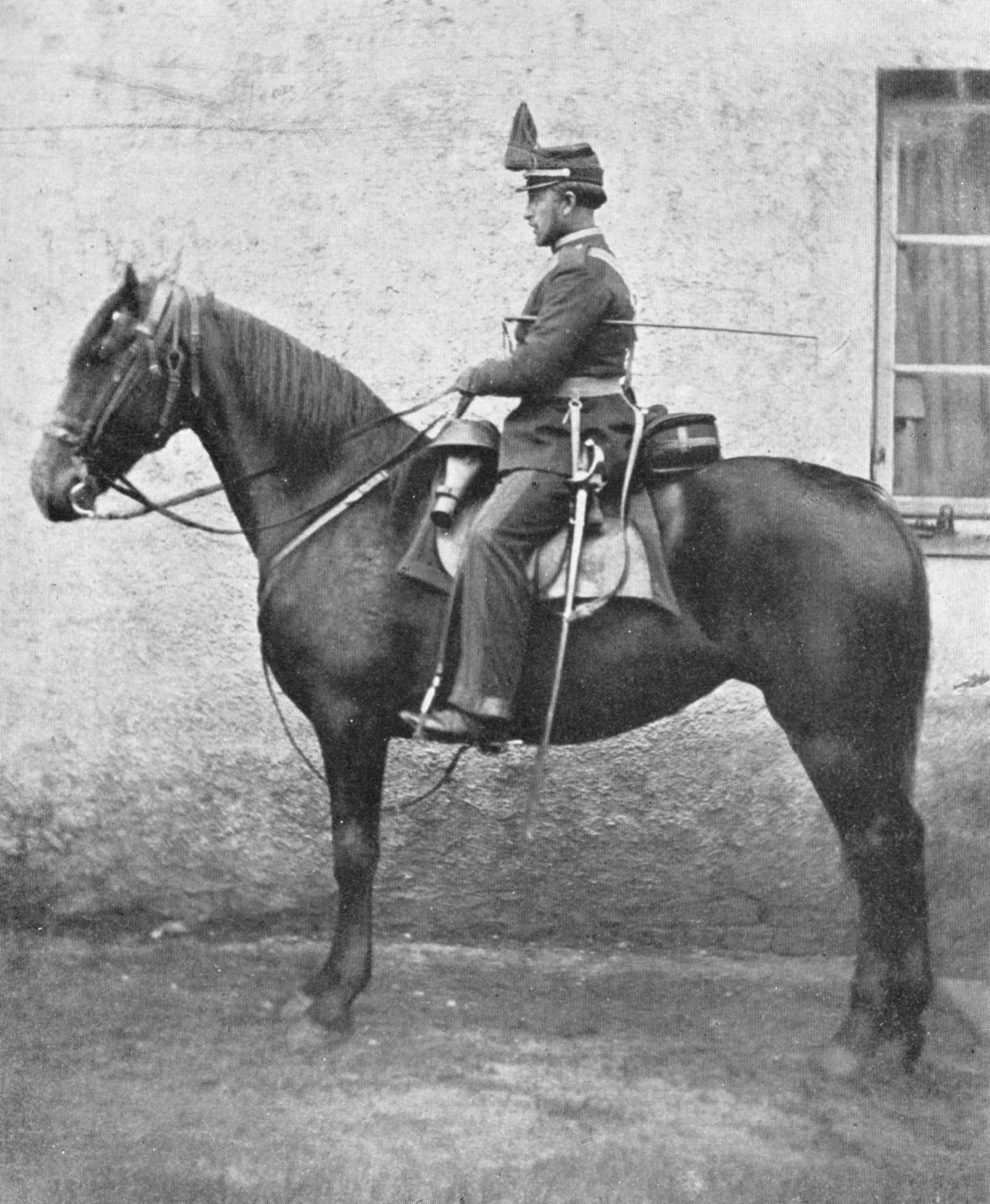 State dragoon of the Gendarmerie corps of the Grand Duchy of Oldenburg 1865 with the just introduced so called russian cap. Blue Uniform with red stripes on the trousers.